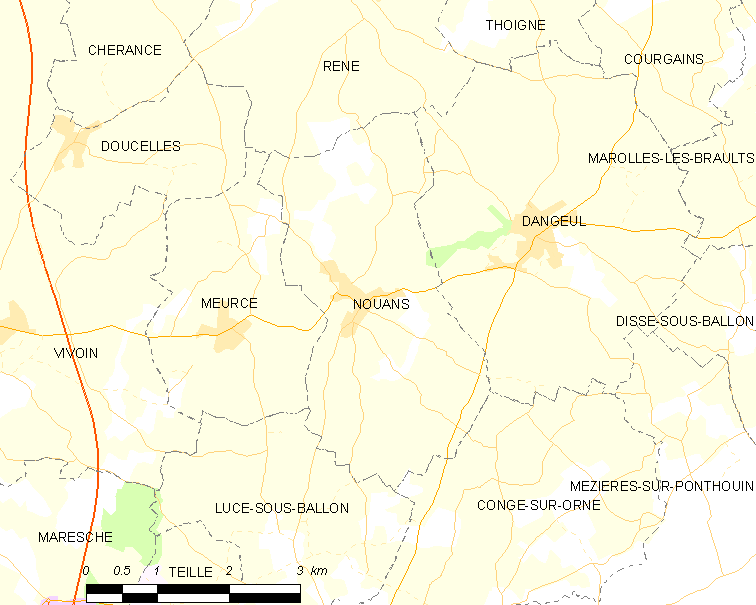 Map of French municipality